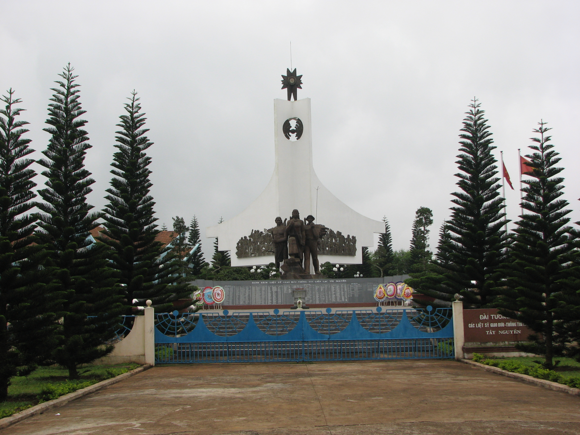 A war memorial to soldiers of North Vietnam force, Tây Nguyên (Central Plateau), Vietnam.